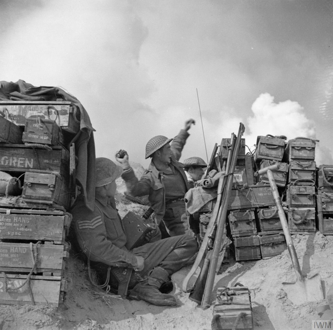 The British Army in Italy 1945 Infantry of 17 Platoon, 'H' Company, 2nd London Irish Rifles hurl hand grenades during an attack on a German strongpoint on the southern bank of the River Senio, 22 March 1945.